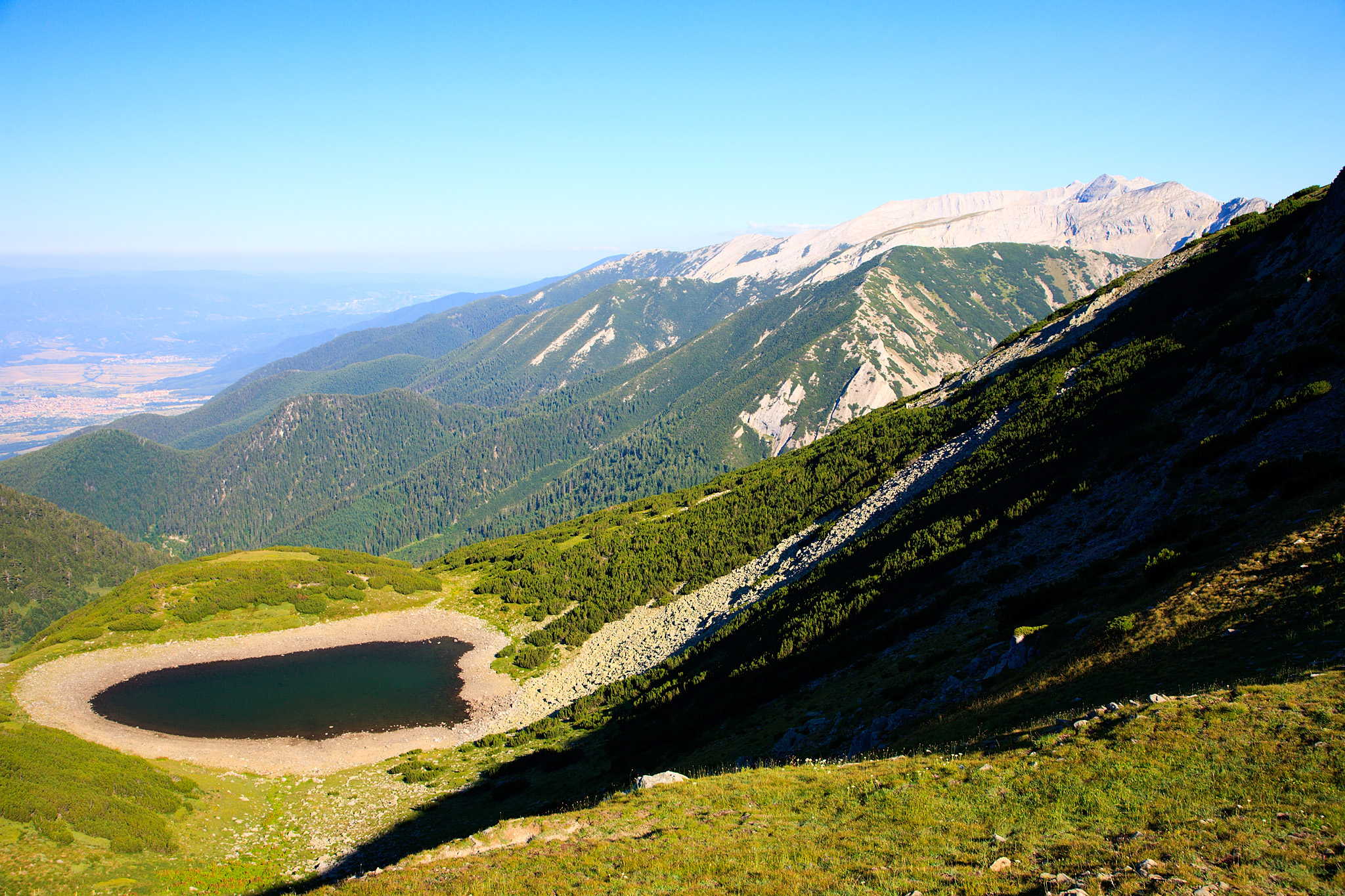 The Dautovo ezero lake in Northern Pirin mountain, Bulgaria